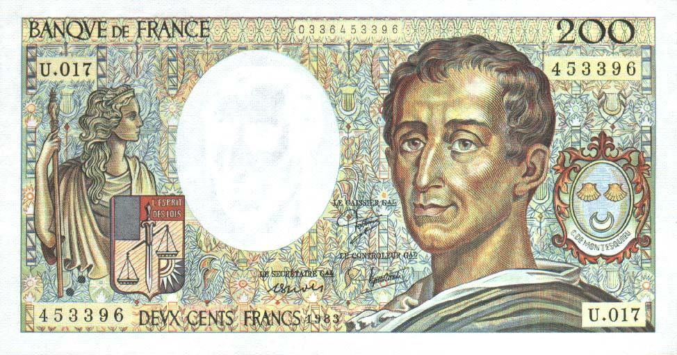 France 200 francs 1983